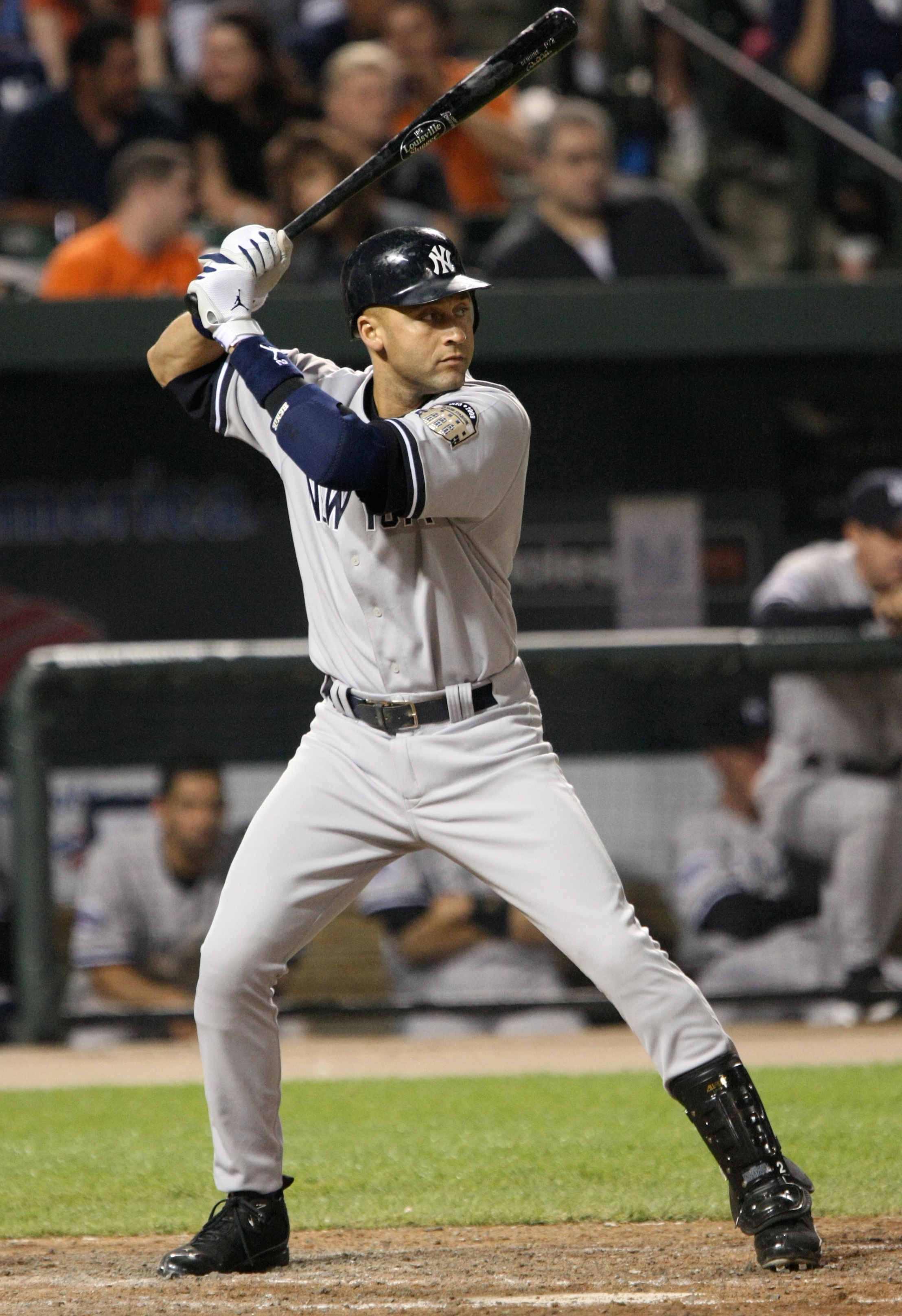 Derek Jeter bats against the Orioles on 4-19-08.